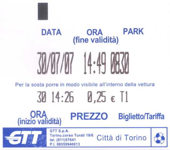 A Pay and Display ticket from GTT, Turin, Italy.